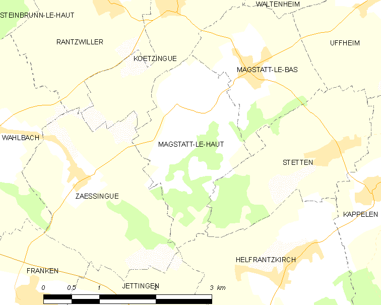 Map of French municipality